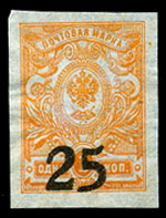 Russia government of the Don Territory 1918, mint.